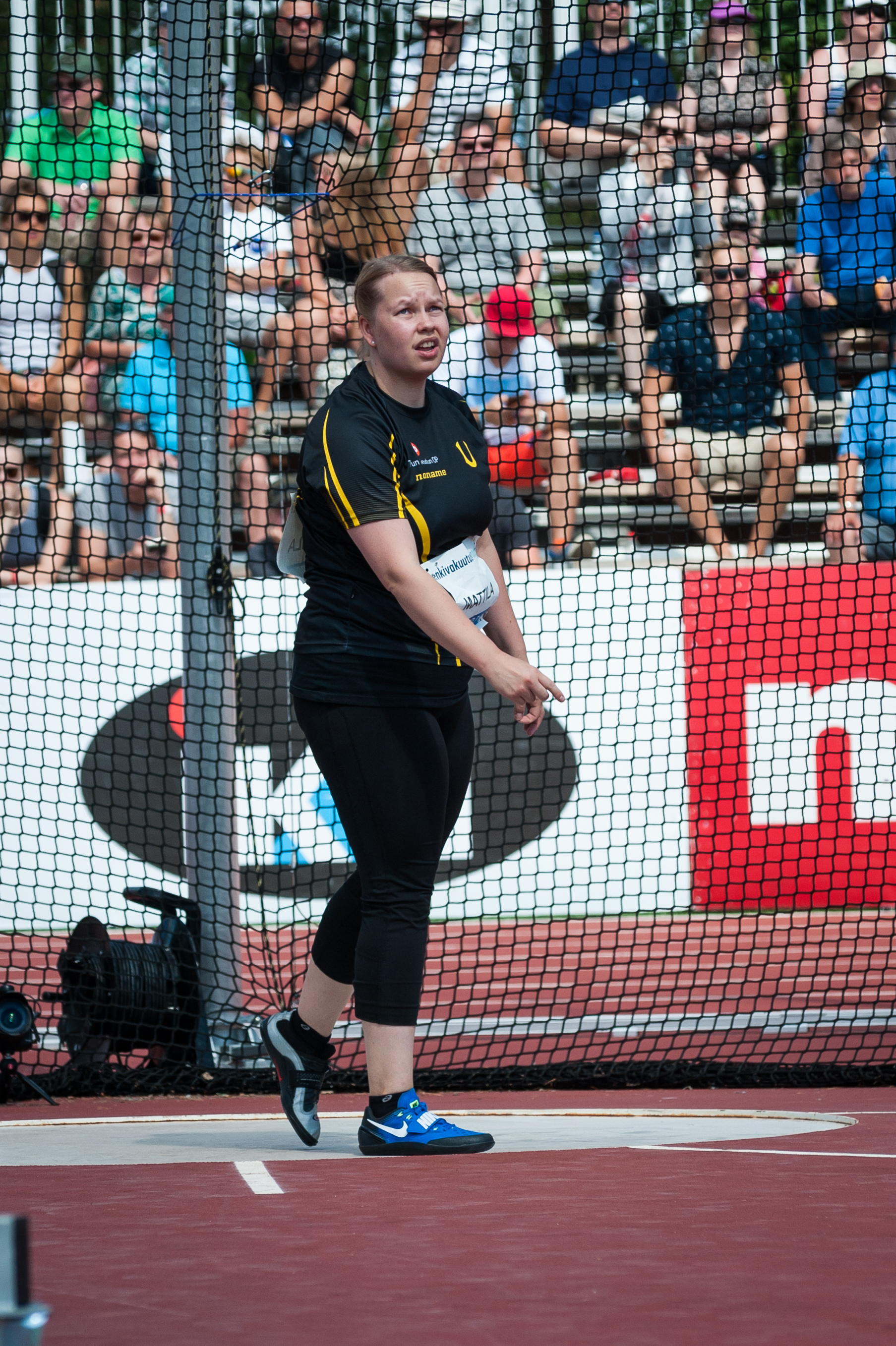 Women's discus throw competition at the 2018 Kalevan Kisat, the Finnish championships in athletics, in Jyväskylä, Finland.